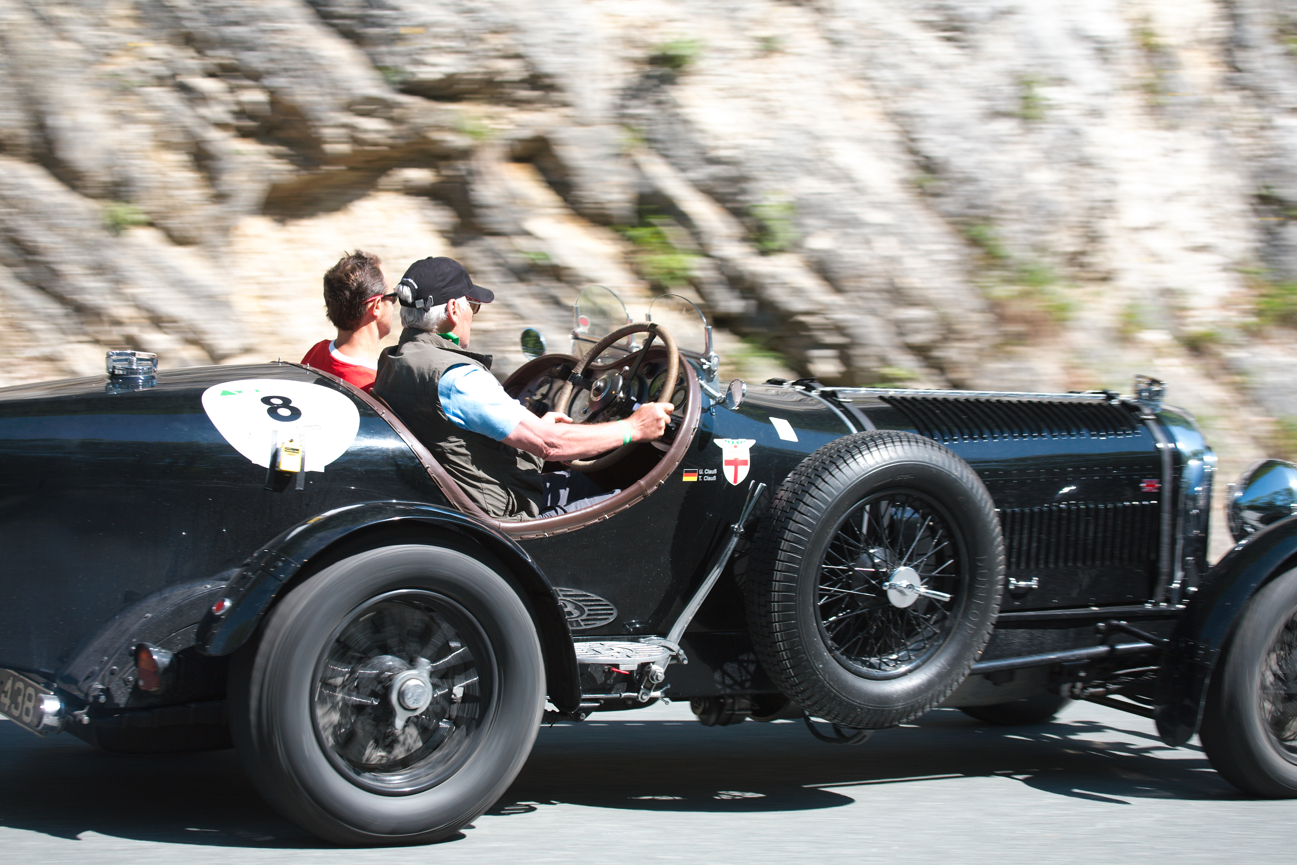 1930 Bentley Speed six at Gaisbergrennen 2009 Bentley 6½-litre tourer 1930 modified Original coachwork: saloon by Harrison Chassis KR2696 12 ft wheelbase Engine KR2694 Reg GJ 4382 delivered June 1930 Engine modified to 8-litre; lowered shortened by Hofmann & Mountfort; hydraulic brakes